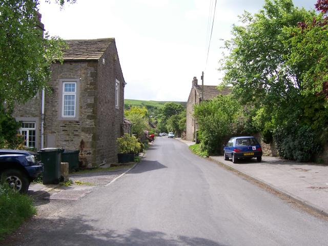 Main road heading south in Draughton, North Yorkshire